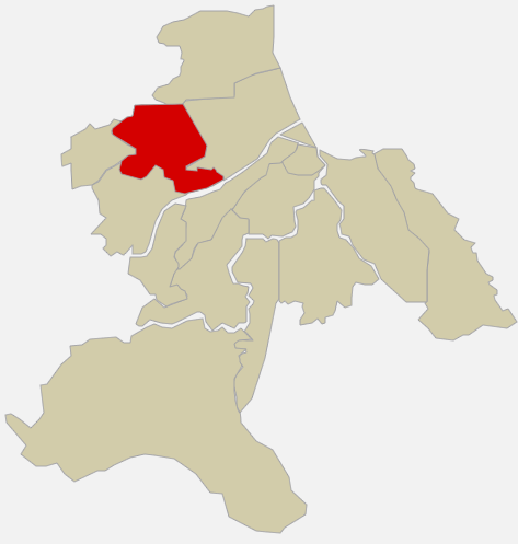 There was Kaminaganawashiro village until 1955. Now it is part of Hachinohe city.